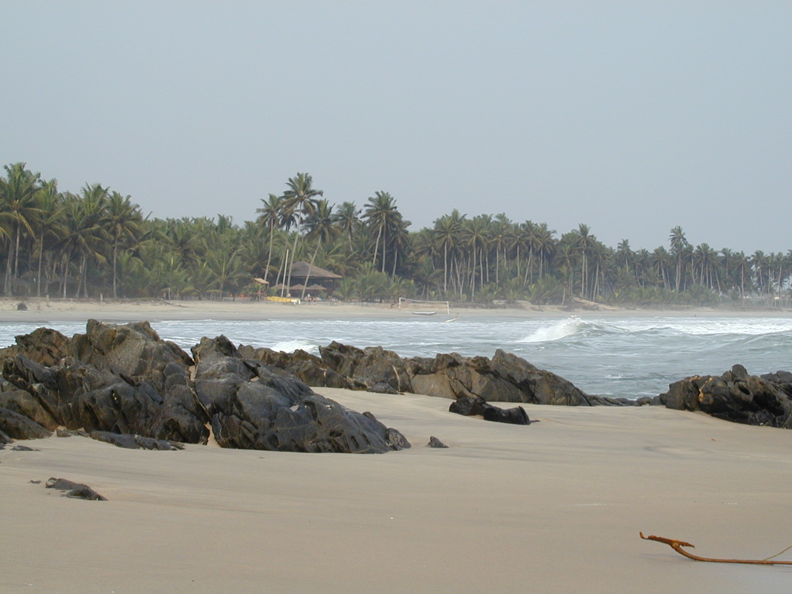 Beach of Anamaboo, Ghana